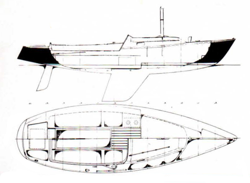 These are the lines and accommodations of the Paceship Bluejacket 23 Daysailer.